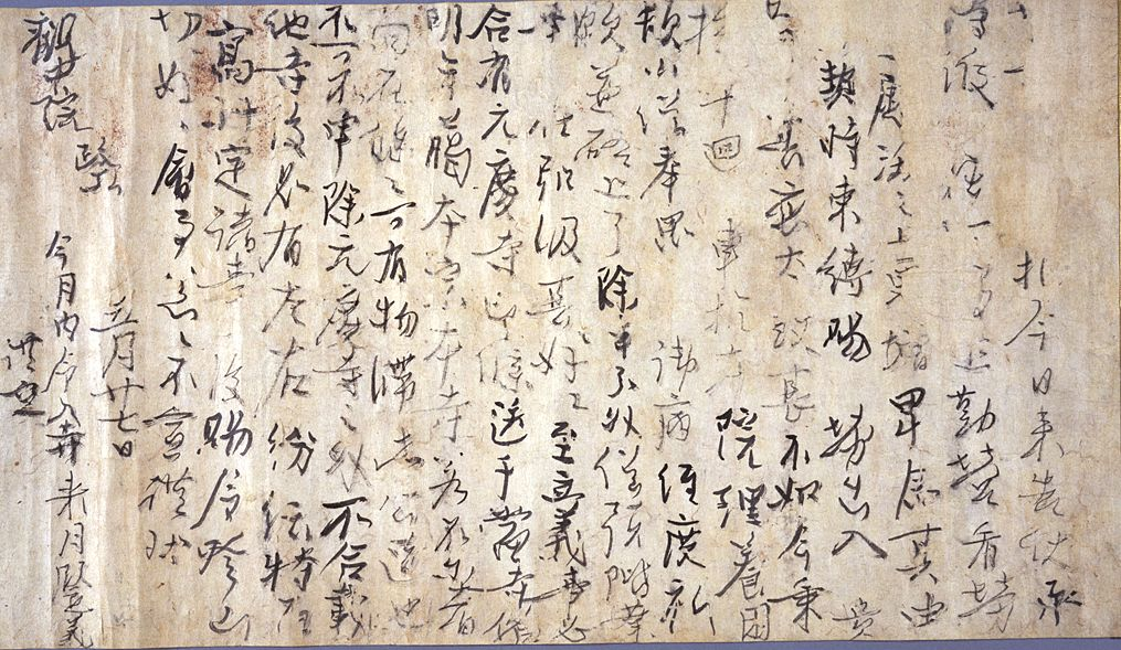 Letter written by Enchin. Part of the Documents related to the priest Enchin (円珍関係文書, enchin kankei monjo) which are documents surrounding Enchin's trip to China, 953–958 containing information on his activities as well as on Sino-Japanese relations in the mid-9th century. They are also of interest for the study of calligraphy. Located at the Tokyo National Museum, Tokyo. 31.2cm x 56.1cm. The documents have been designated as National Treasure of Japan in the category ancient documents.